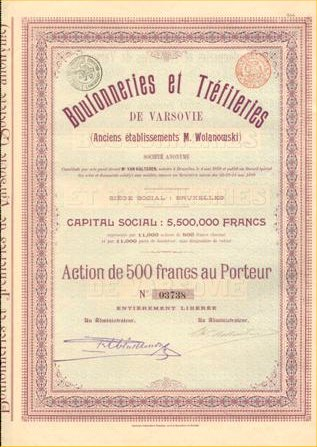 Majer Wolanowski's factory share